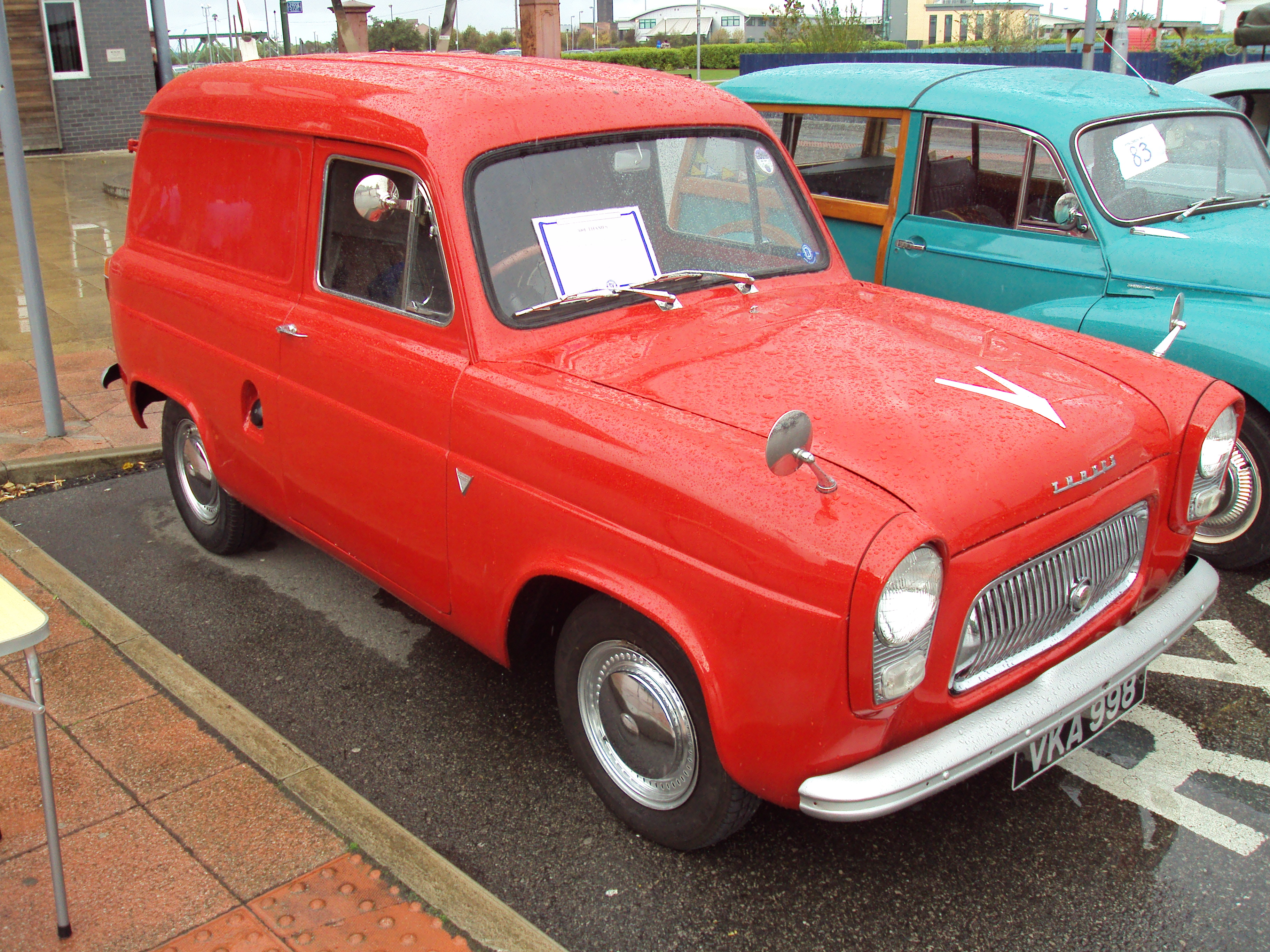 Vintage car at the Wirral Bus & Tram Show, Birkenhead, Merseyside, England.